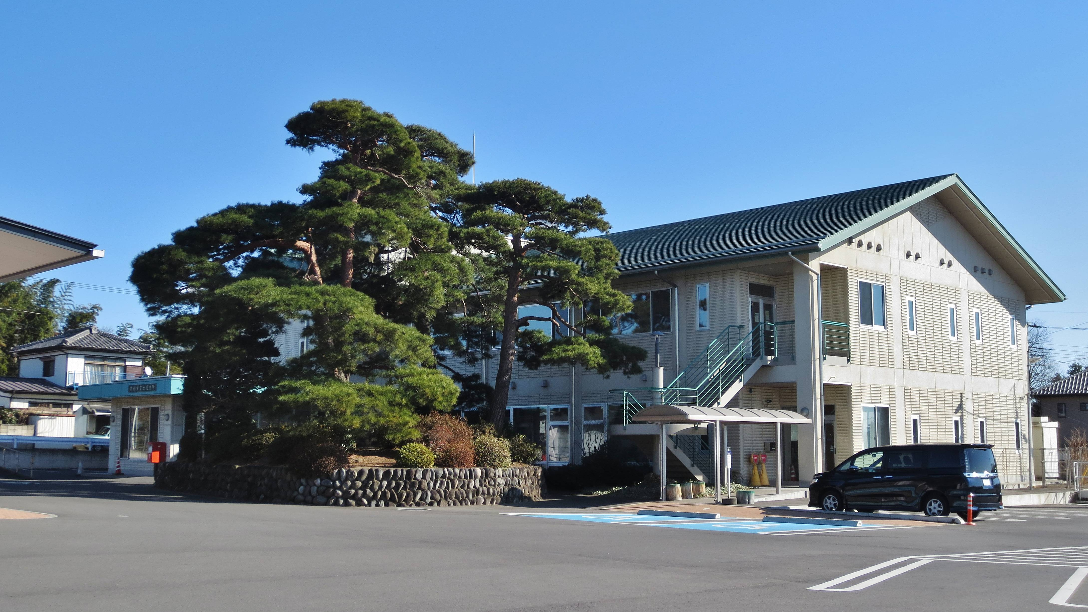 Maebashi city Fujimi branch office.